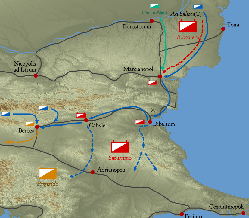 Roman-Gothic War 376-382, campaign 377